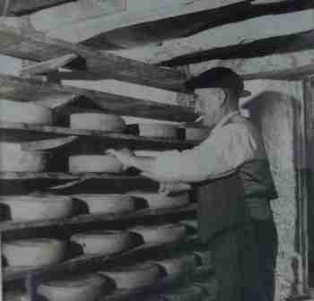 cheese maker